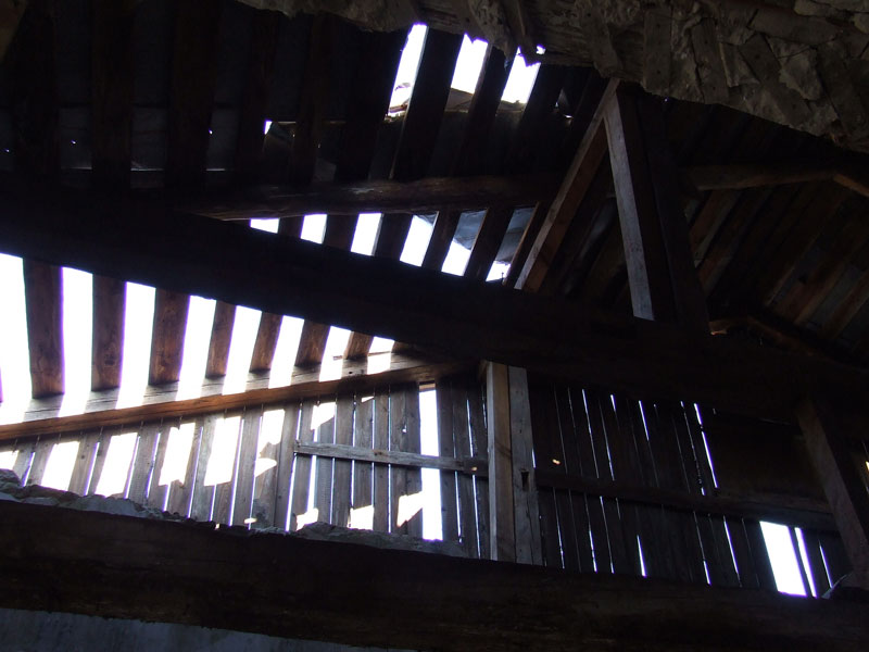 Synagogue in Bychawa